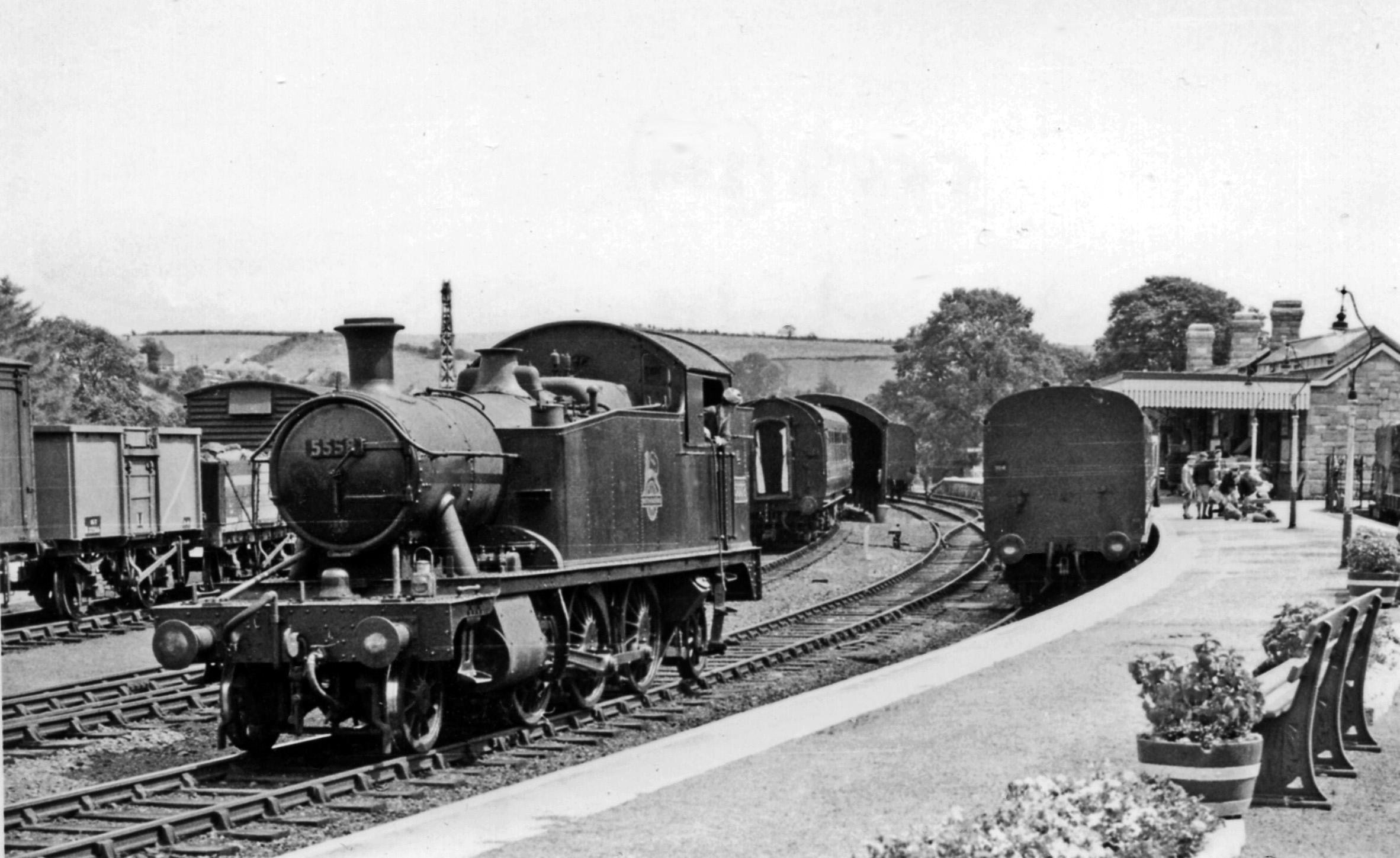 Kingsbridge Station, with a '4575' 2-6-2T. View eastward, towards the buffer-stops: ex-GW terminus of the branch from Brent, closed 16/9/63. The locomotive, No. 5558 (built 11/28, withdrawn 10/60) is running round the branch train standing at the platform.